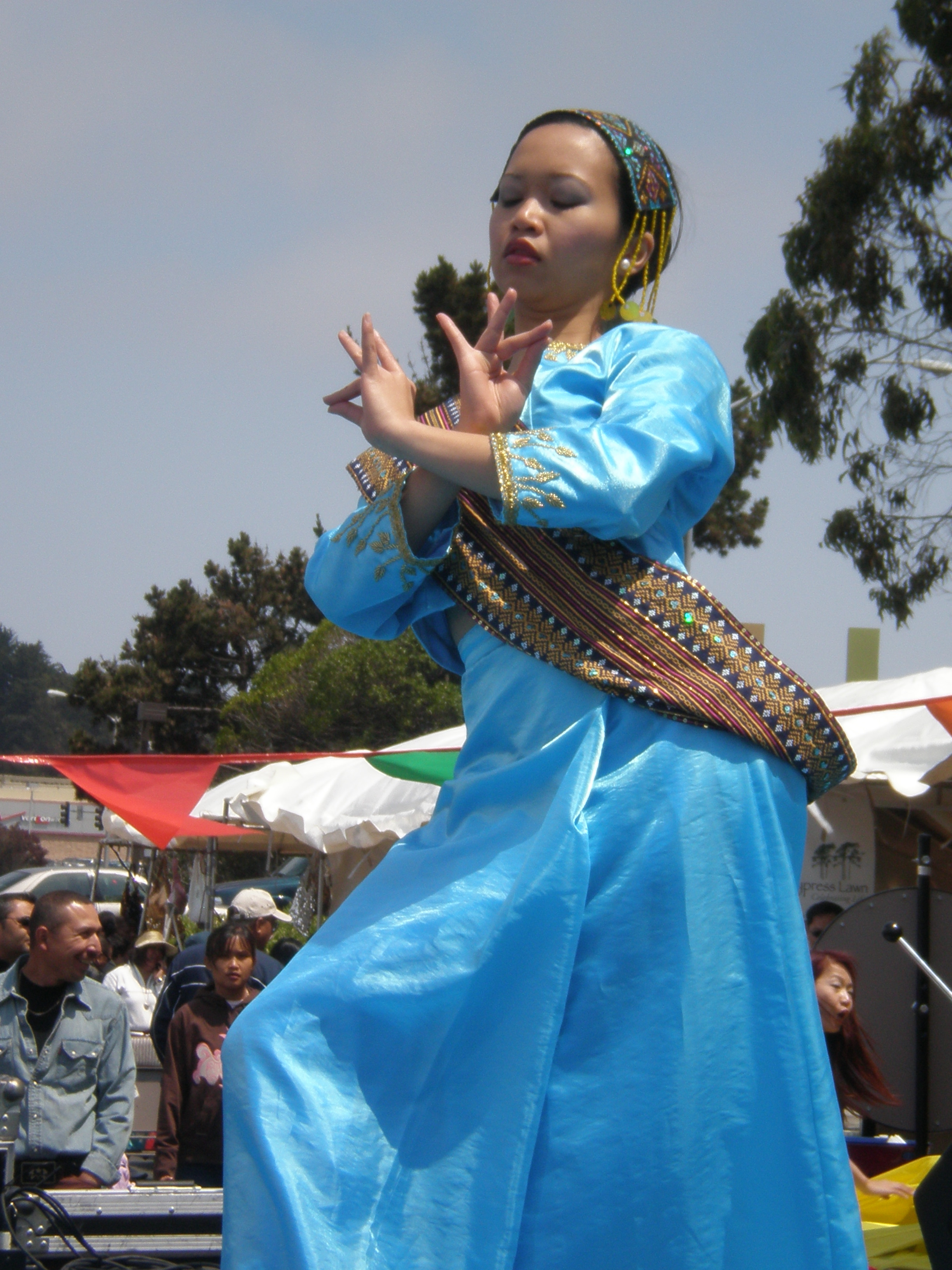 A member of the San Francisco based Parangal Dance Company performing the Asik dance of the Maguindanao people of Lanao del Sur as part of their Bangsamoro suite of dances at the 14th Annual Fil-Am Friendship Celebration at Serramonte Center in Daly City, California.